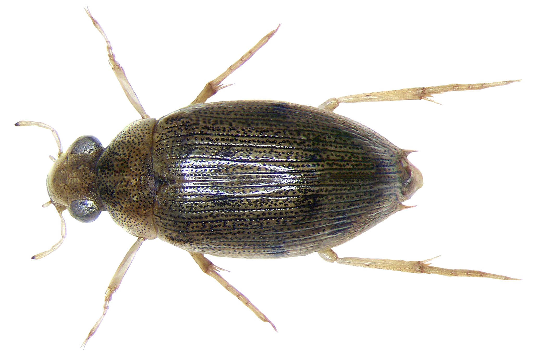 Dorsal view of an adult Berosus elongatulus